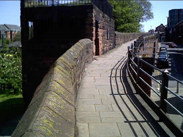 Morgan's Mount, City Walls, Chester Medieval Watch Tower/Gun Platform located on Chesters Walls to the West of Northgate. During the Civil War Captain Morgan was in charge of the Gun Position. The platform was damaged by cannon fire. And during the construction of the canal below several skeletons were found.